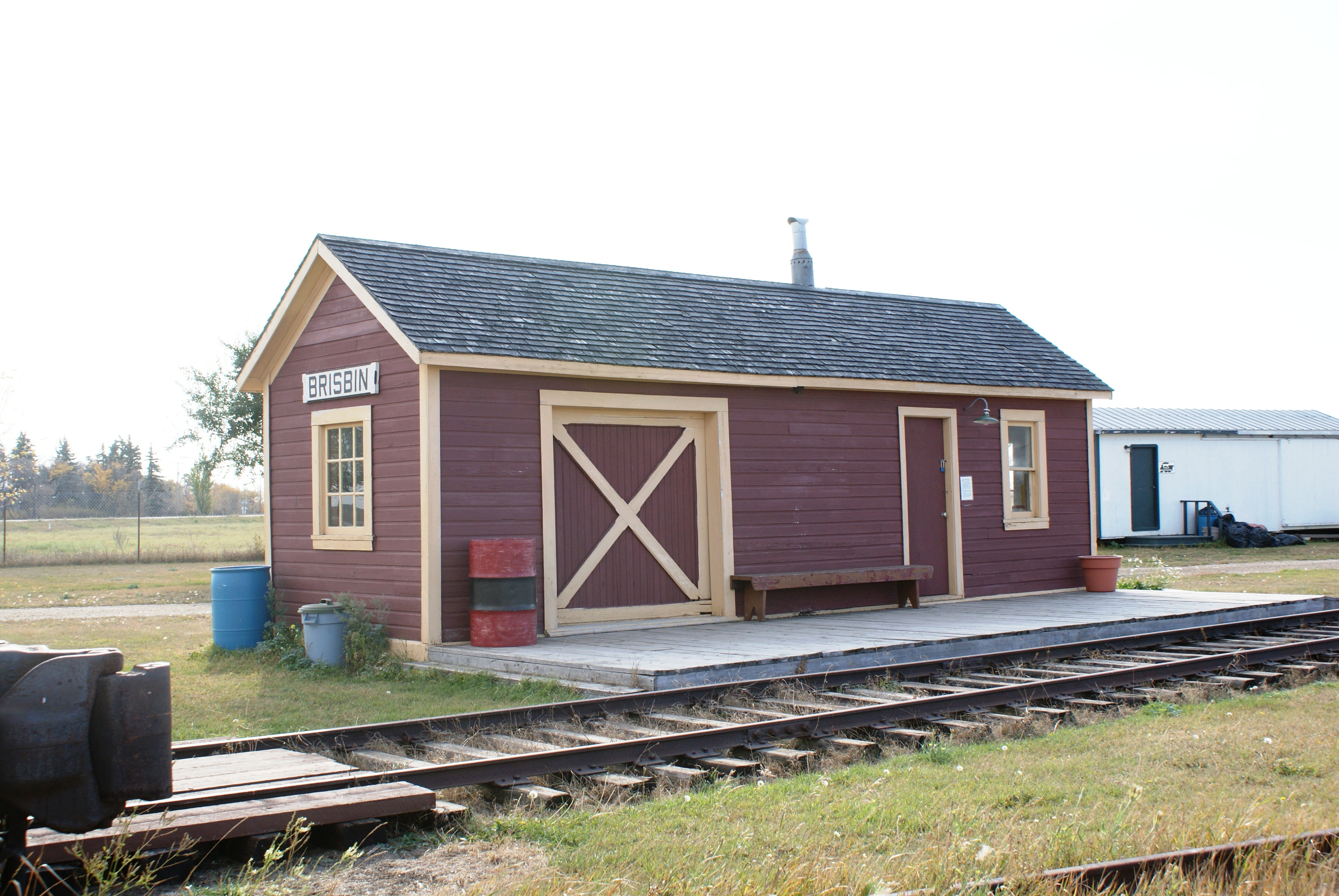 Canadian Northern Railway train station which would fit on a train flatbed and move from location to location as it was needed. This particular station was first built in Debden, then moved to Brisbin. Later is was used as a tool shed in Brock. It has now been restored as a passenger and freight station at the Saskatchewan Railway Museum